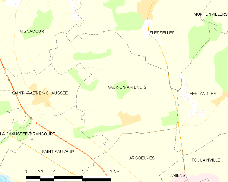 Map of French municipality Vaux-en-Amiénois